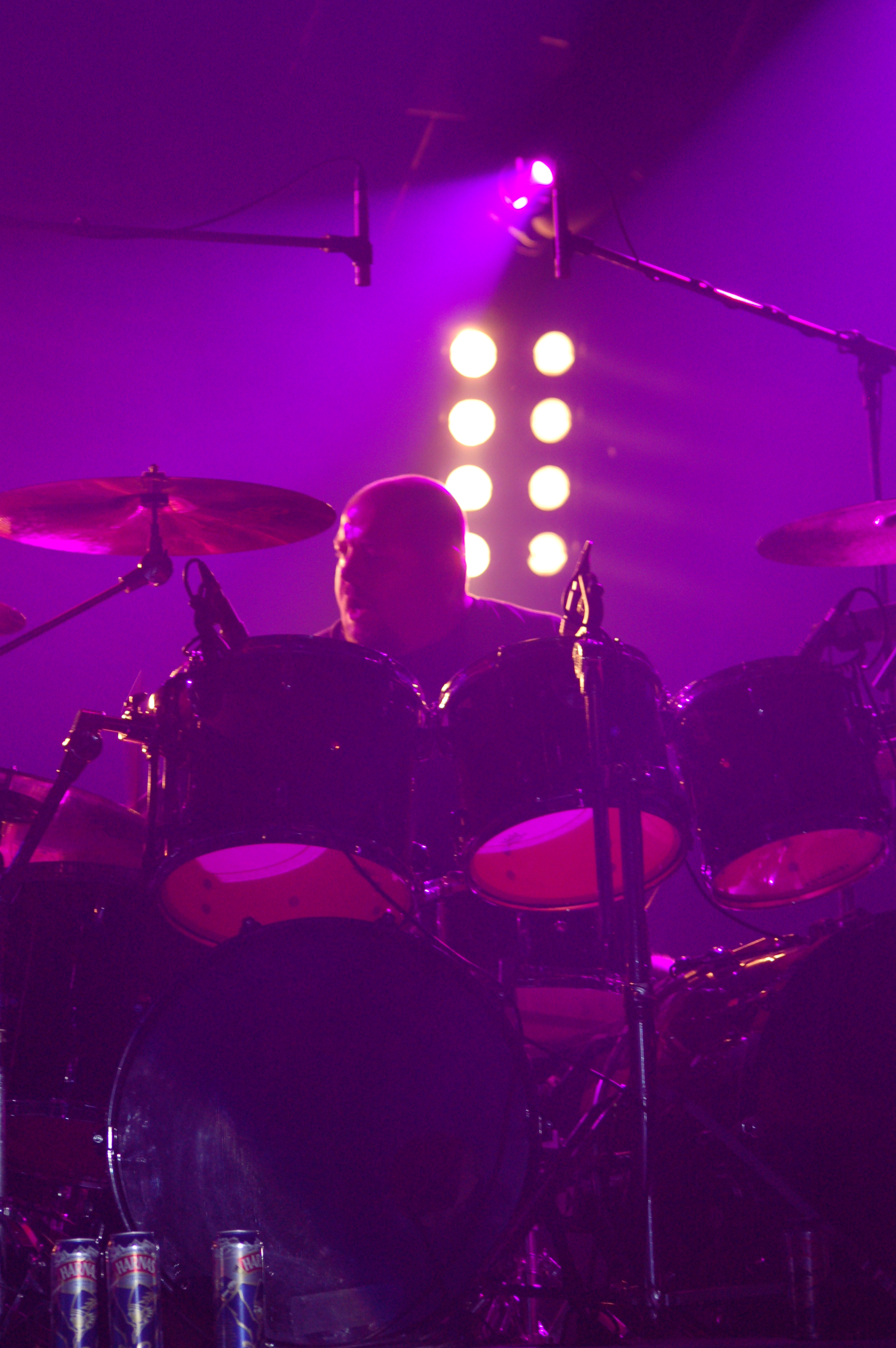 Nick Barker from Testament during Metalmania 2007 festival